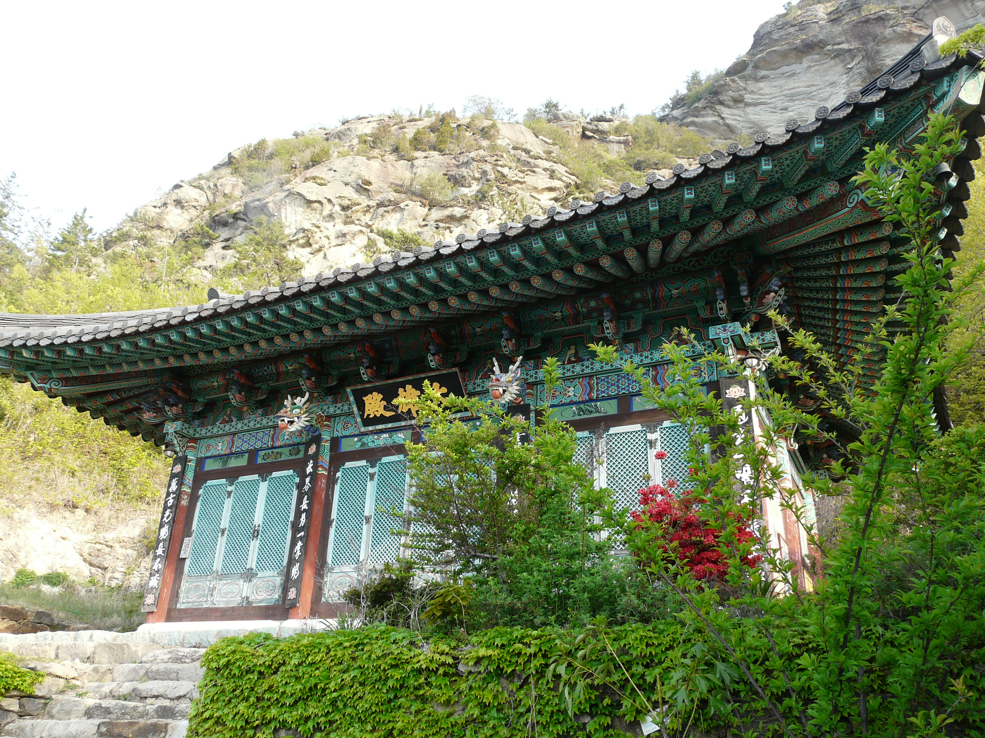 Photos from the Jindo island, Korea.